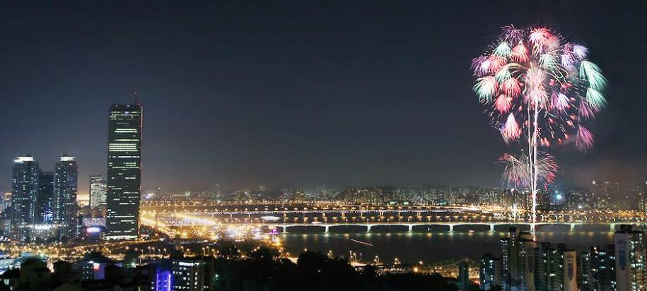 Han river in Seoul, South Korea